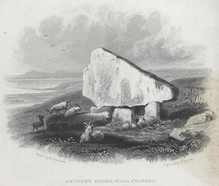 A view of Arthur's stone with goats sitting beside it in the foreground.